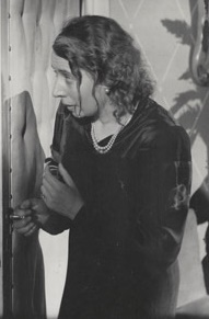 María Santos- actriz